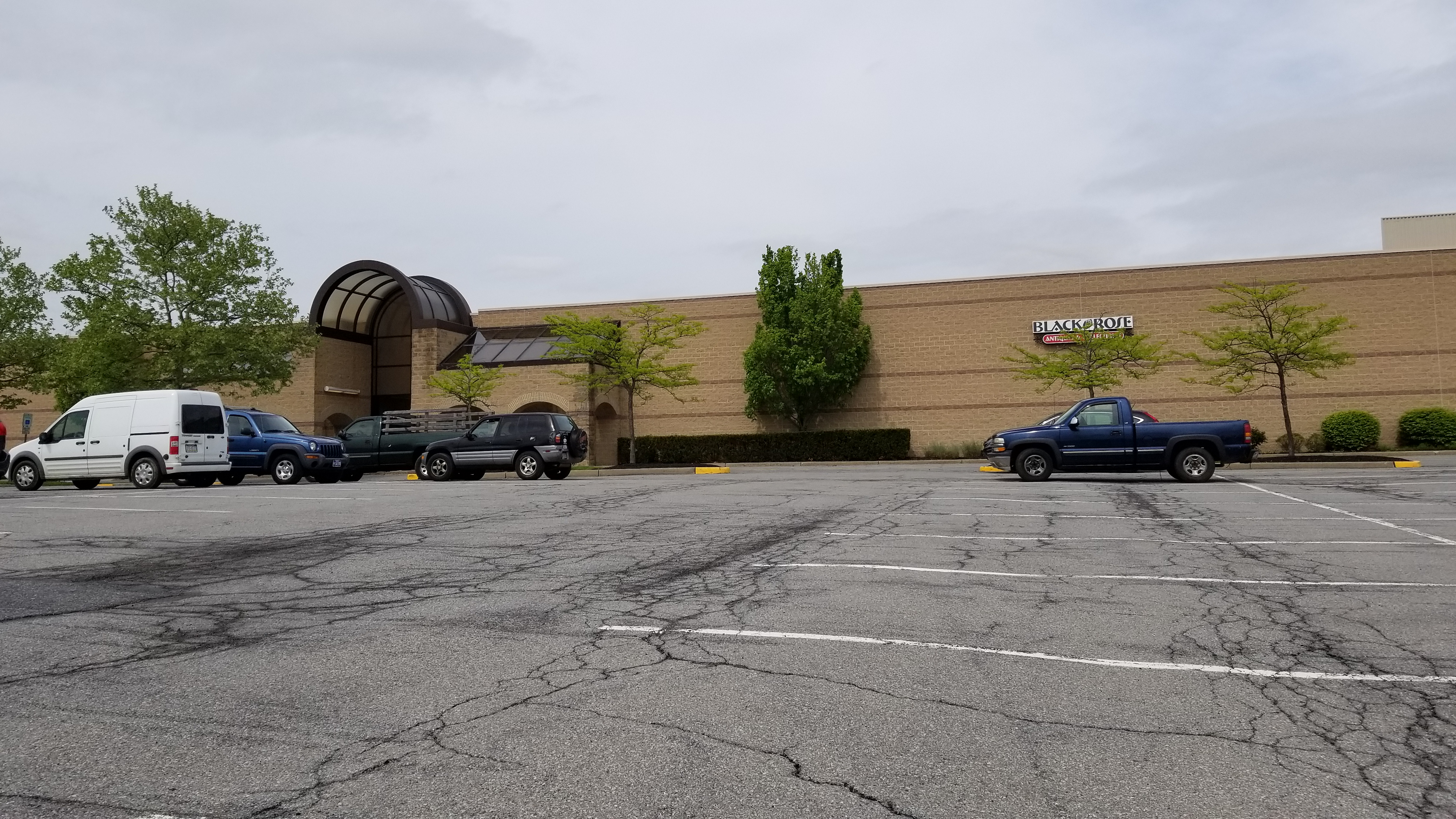 JCPenney - Phillipsburg Mall Phillipsburg, NJ May 2018